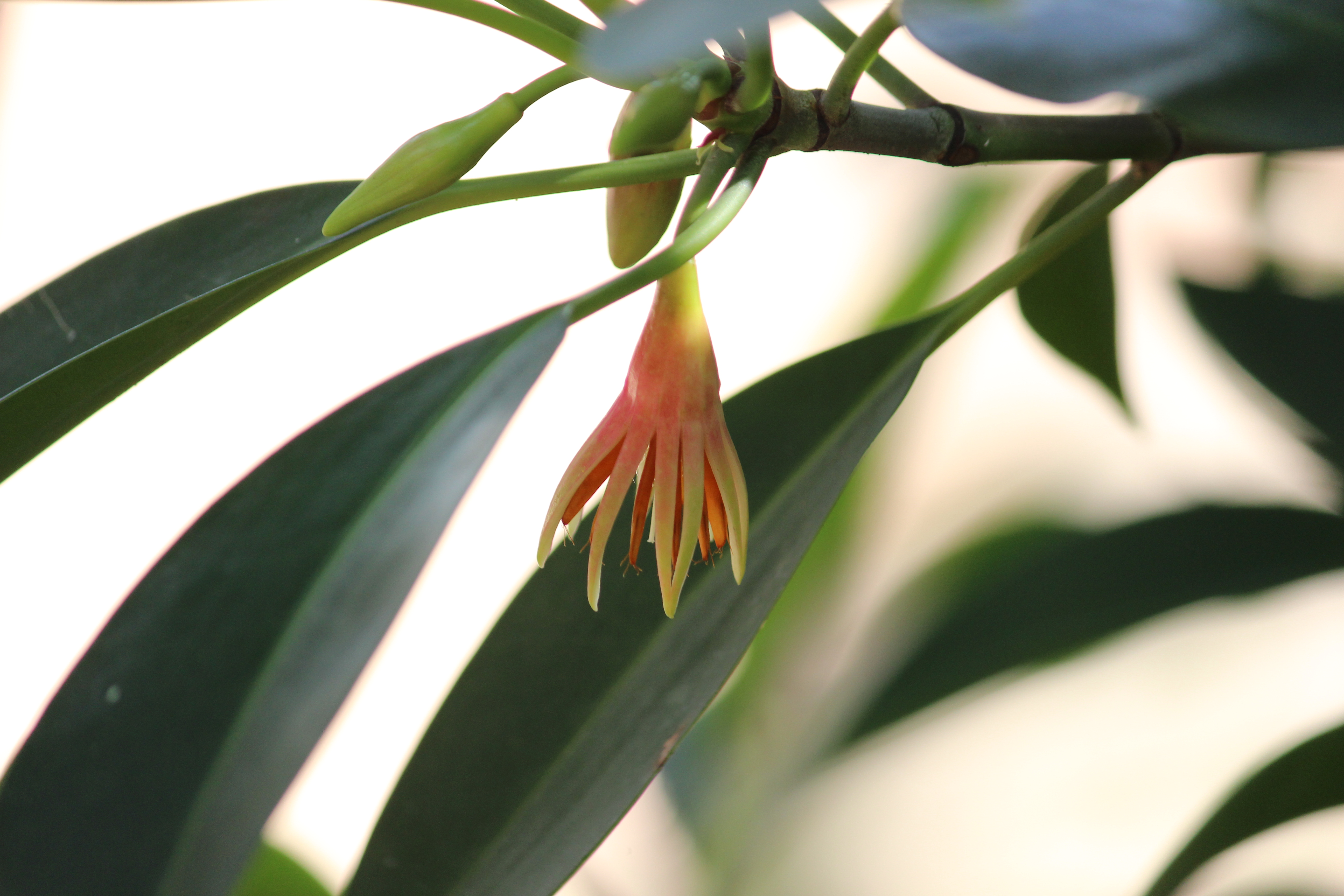 The Flower of Bruguiera gymnorrhiza or Black Mangrove. Picture taken from the shore of Astamudi lake at Adveture Park, Kollam, Kerala, India